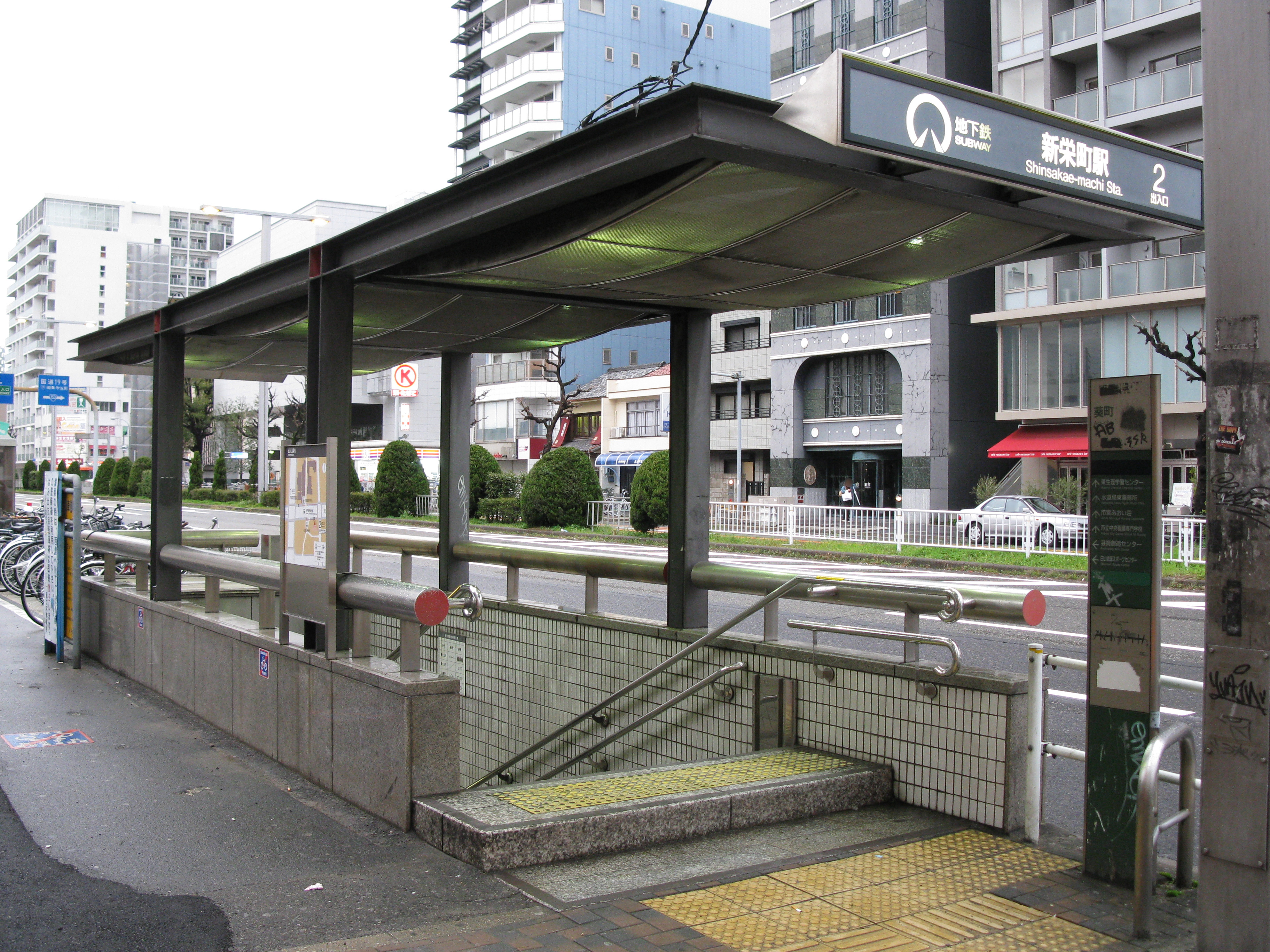 Shinsakae-machi Station no.2 entrance (Nagoya Municipal Subway Higashiyama Line)